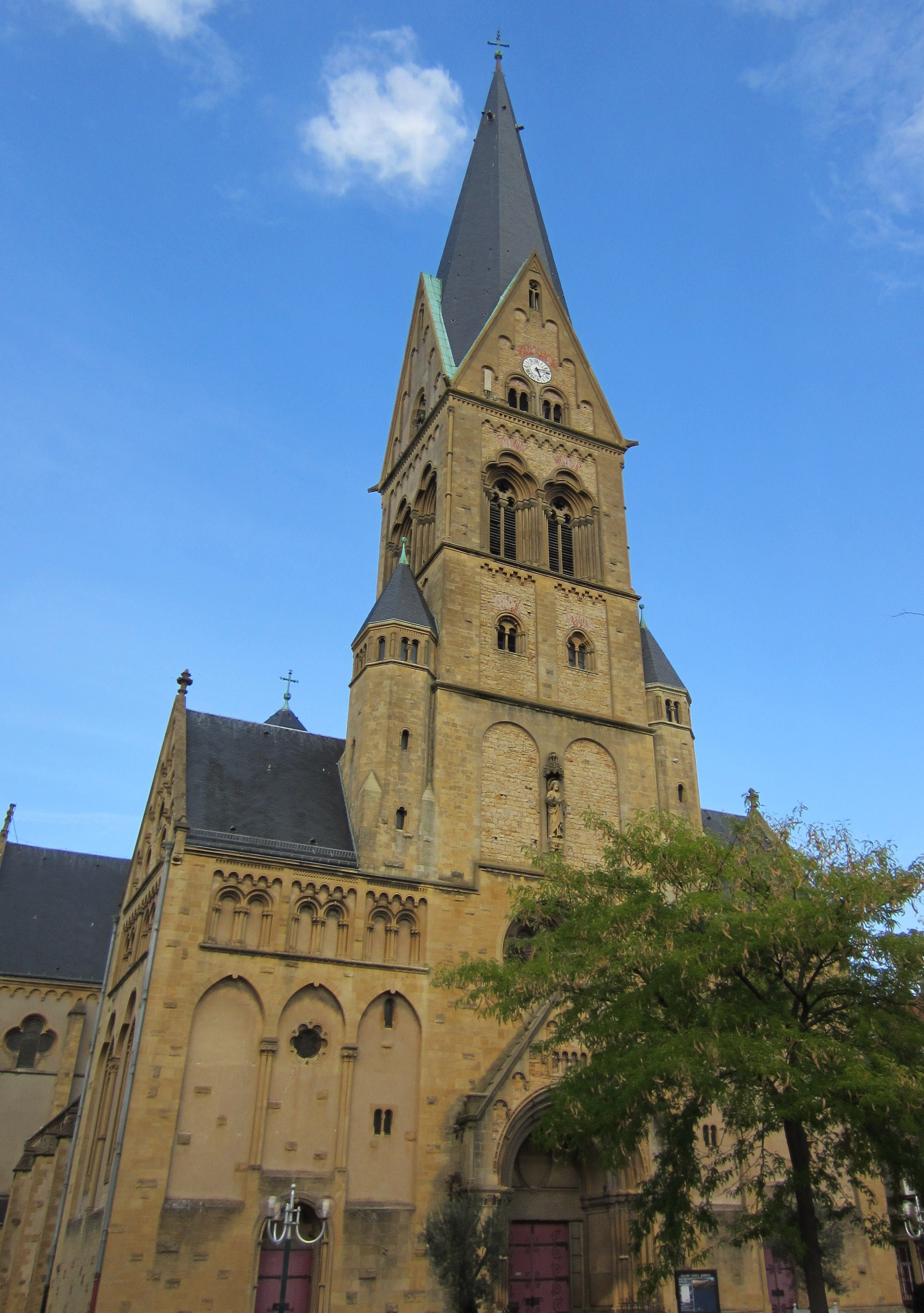 Description facade eglise Montigny Metz Date11 December 2011Sourcemon appareil photoAuthorAimelaimePermission (Reusing this file) facade eglise Montigny Metz